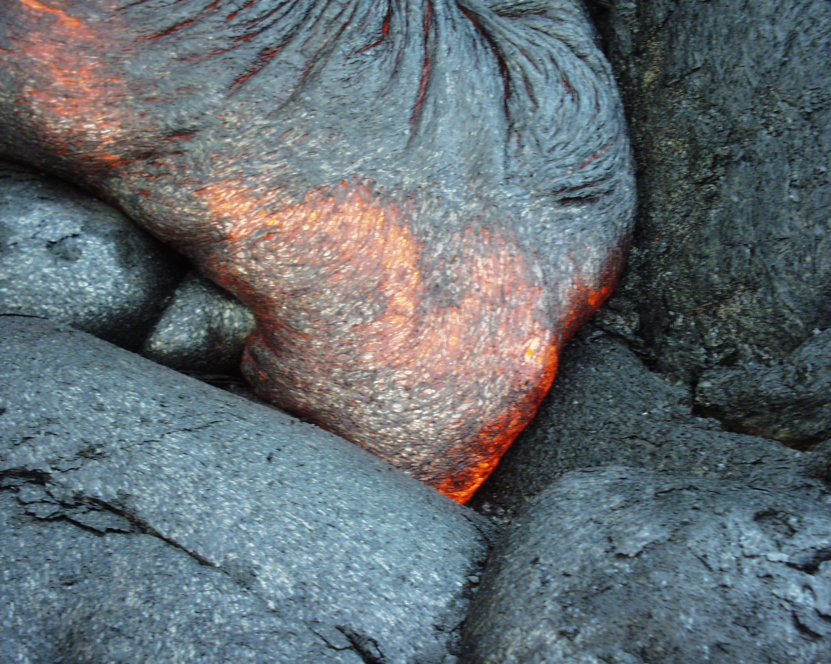 Description: Close look at red lava Location: Hawaii, Hawaii